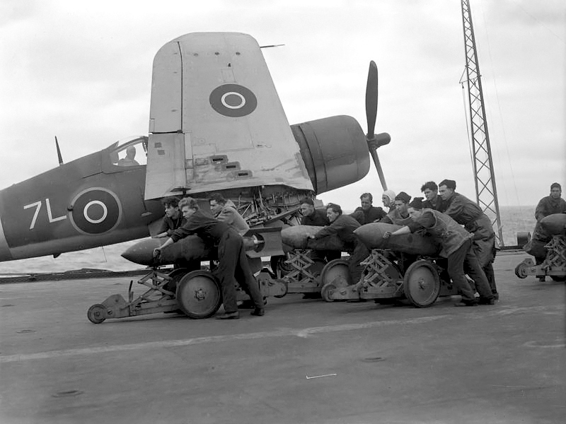 British naval personnel moving bombs along the deck of an aircraft carrier prior to "bombing up" Barracuda aircraft during the Operation Goodwood attacks on the German battleship Tirpitz.